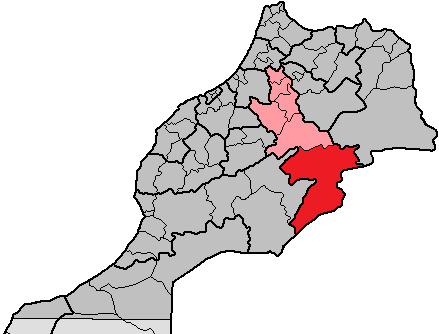 Location of the province Errachidia within the region Meknès-Tafilalet, Morocco. In total, Morocco has 16 regions, subdivided into 62 provinces and 13 prefectures.